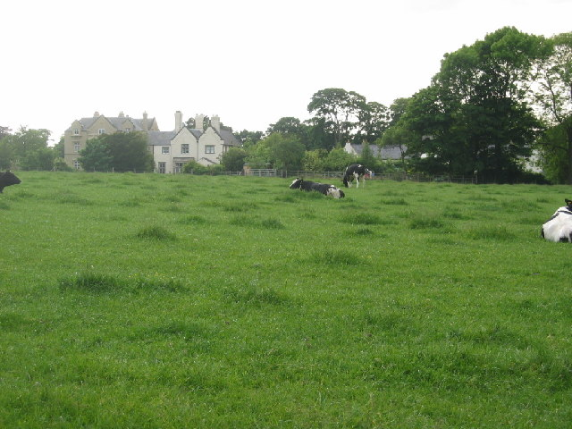 Norley Hall. Norley Hall taken from the minor road looking across pasture land.